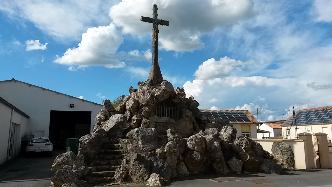 Calvaire paroissial, rue du calvaire à la Guyonnière (FR-85) élevé en 1877 aux frais de l’abbé de Suyrot, oeuvre de M. Pariche, rocailleur de Nantes